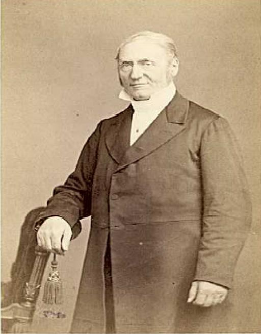 Theodore Nicolas Gobley at the height of his career, around 1860